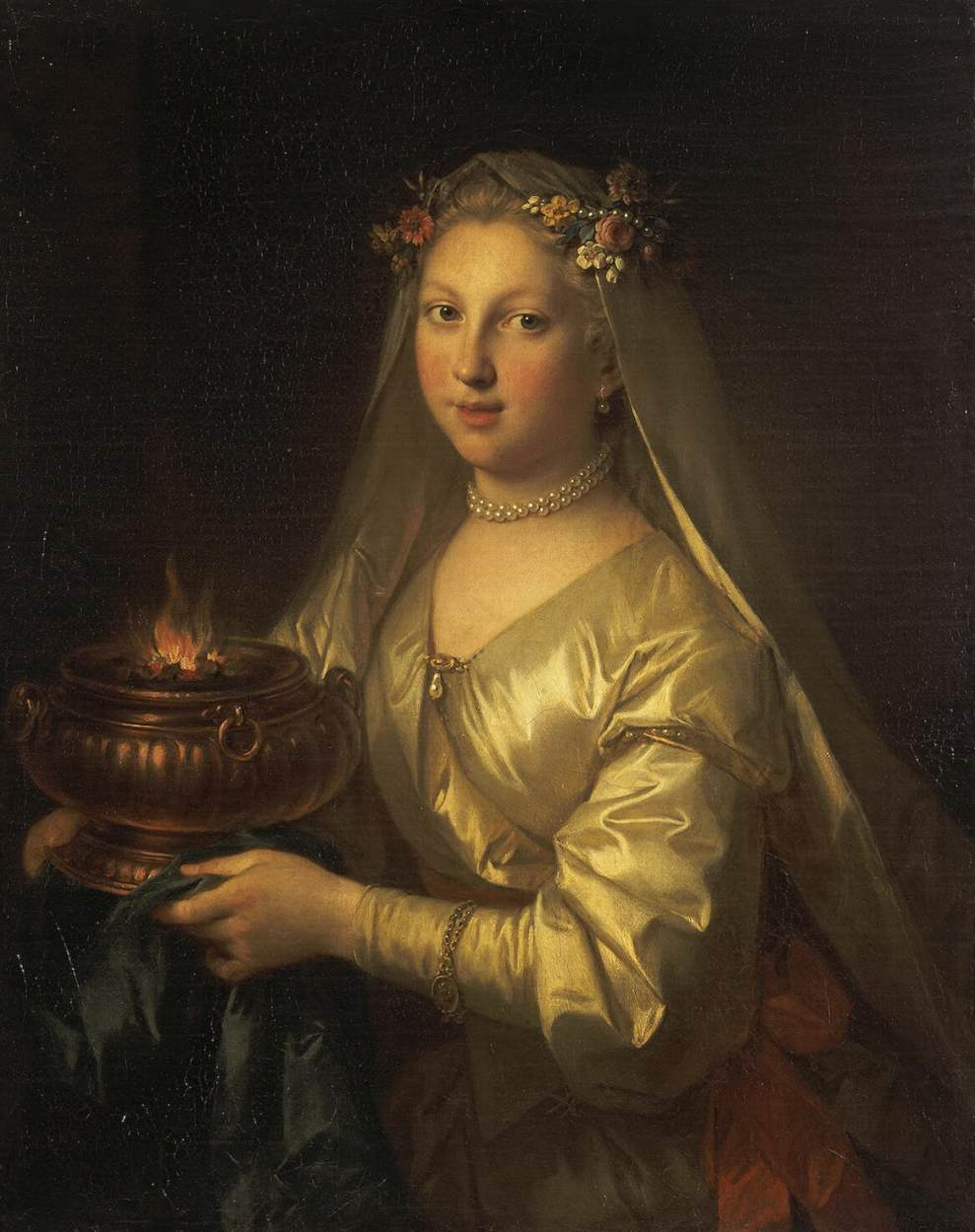 Vestal Virgin. Oil on canvas. 89×74.5 cm. The Hermitage, St. Petersburg.